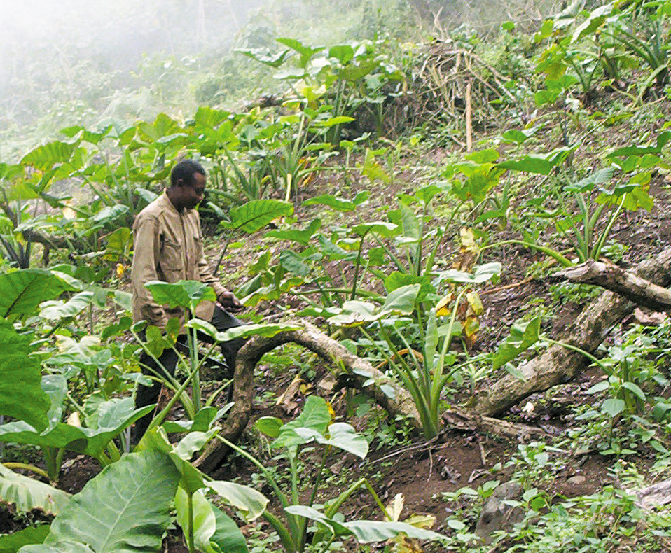 A Bakweri farmer working his cocoyam field on the slopes of Mt. Fako in the Southwest Province of Cameroon.